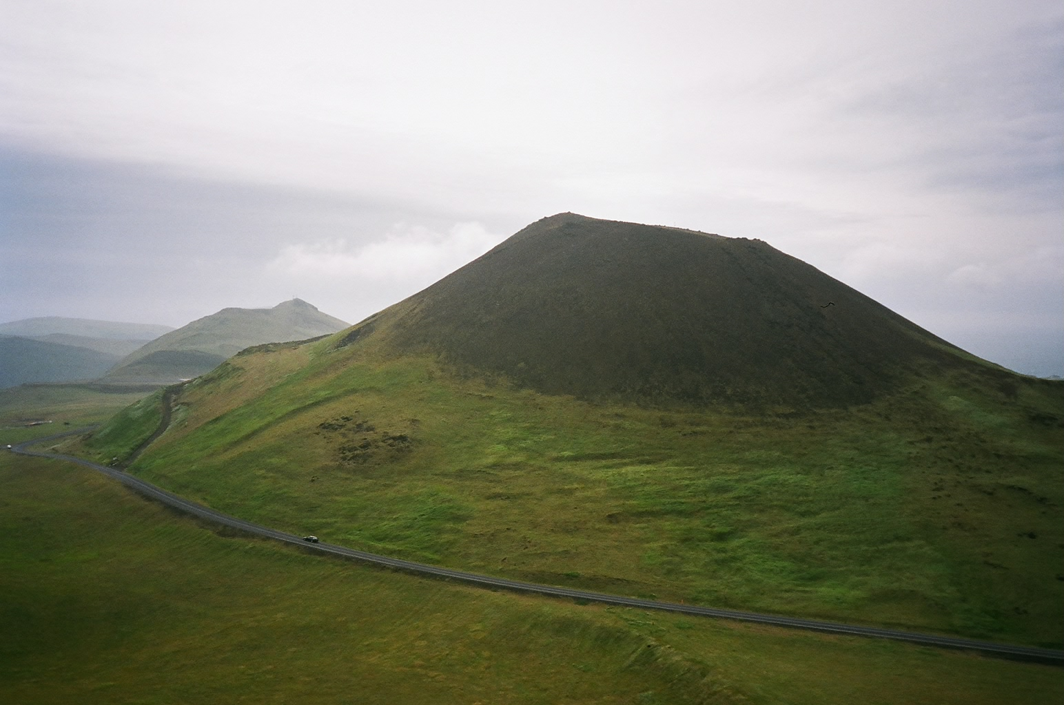 Helgafell volcano in Heimaey seen from the top of Eldfell, Vestmann Islands, Iceland.